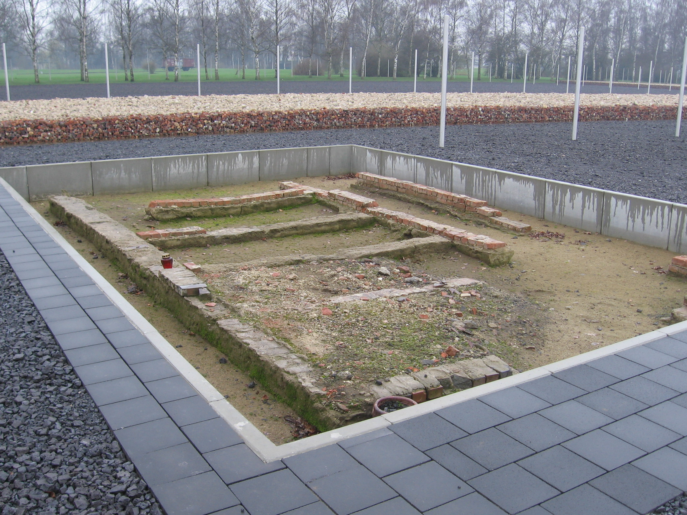 Relicts of the bullpen of the concentration camp Neuengamme near Hamburg in Germany.